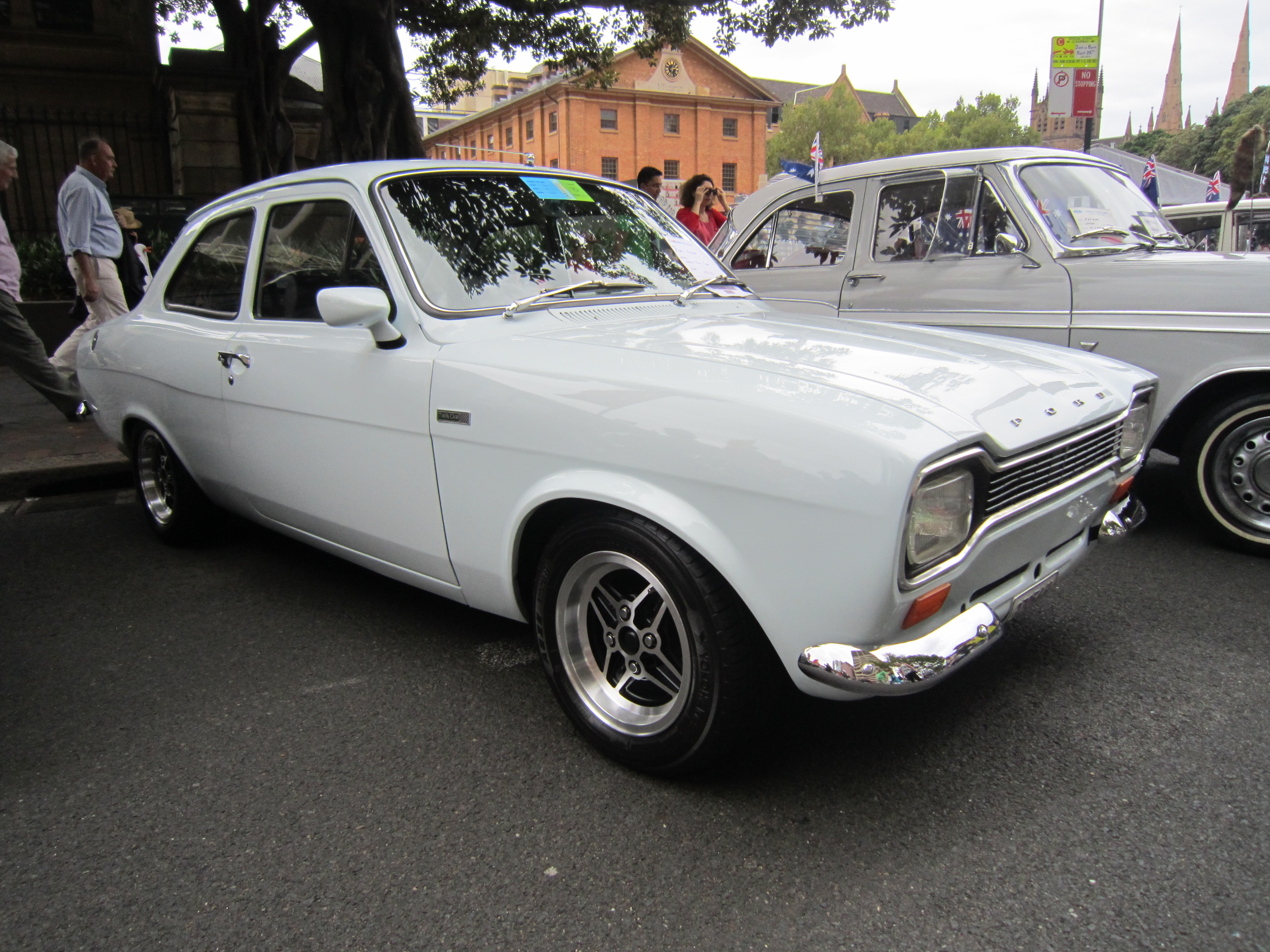 Ford Escort Twin Cam